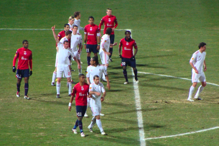 Lille (LOSC) vs Liverpool FC, Stadium Nord Lille Métropole